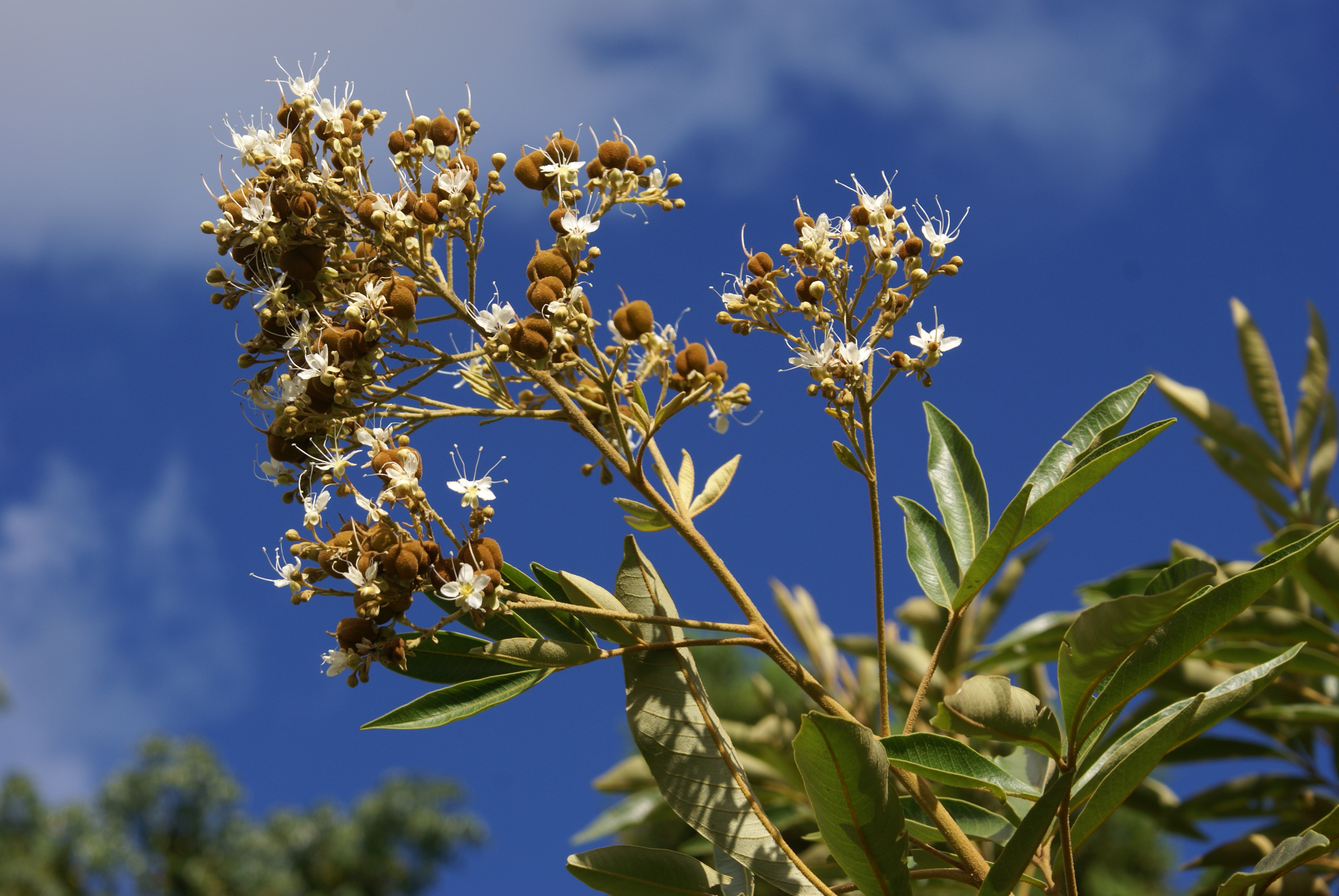 Blossom of Cossinia pinnata